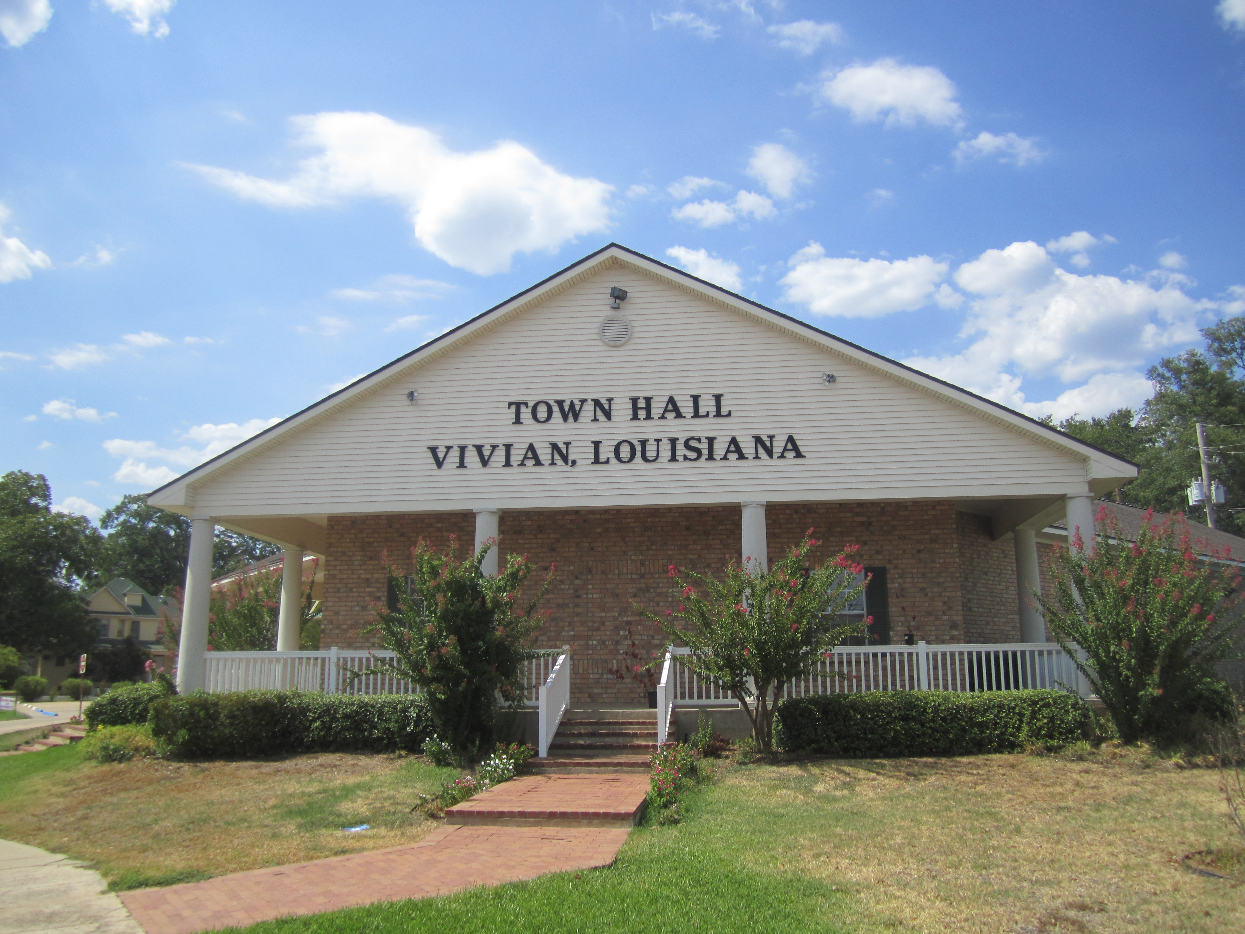 I took photo of Vivian Town Hall with Canon camera.